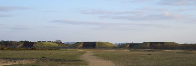 Greenham Common Bunkers The Bunkers were designed to house the Cruise Missiles that were on the Greenham Common Airbase. The site is now being restored back to Original Common Land. If you are interested in helping with this work, please